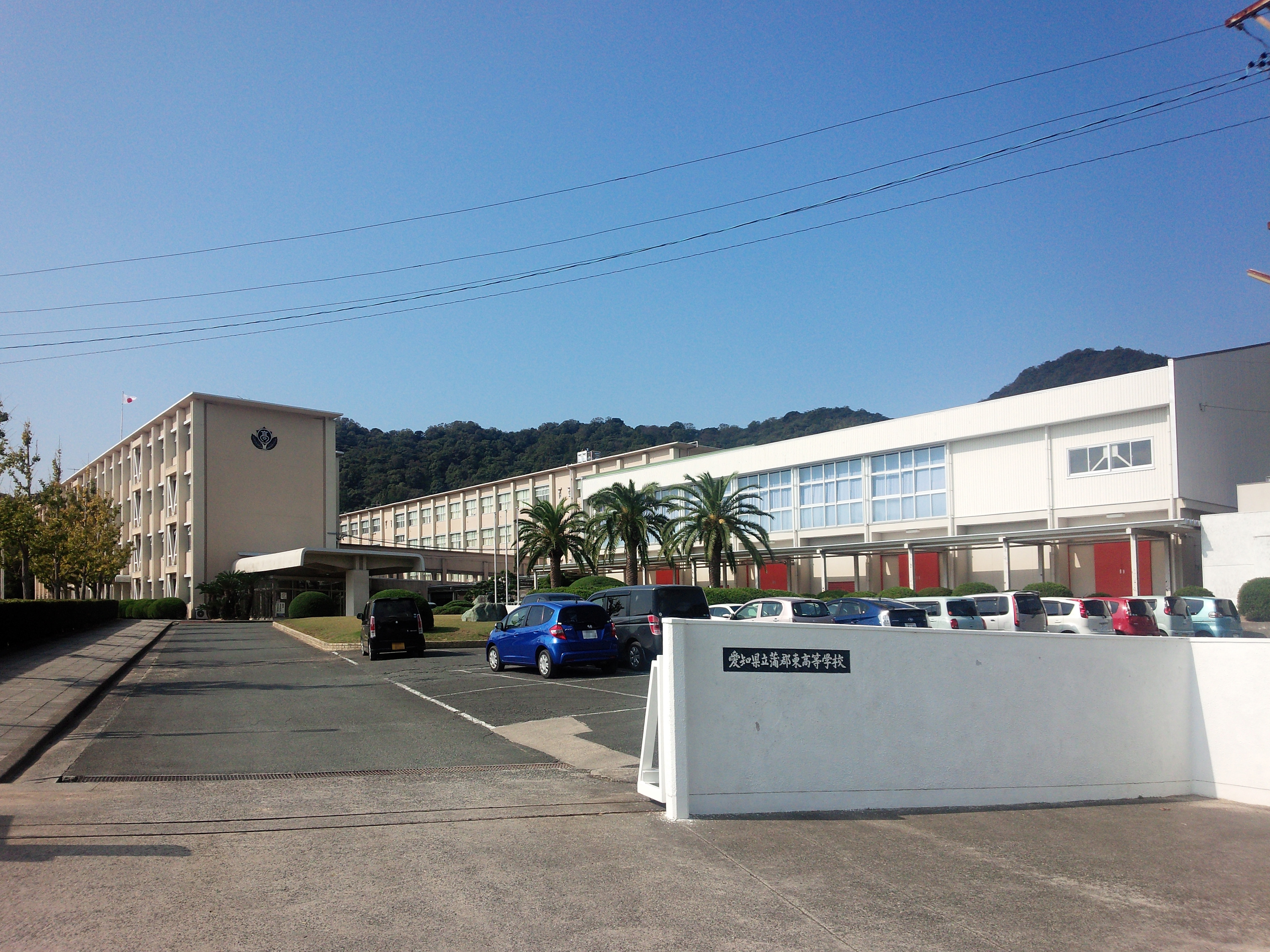 Aichi Prefectural Gamagori Higashi High School (愛知県立蒲郡東高等学校), located at 12-2, Kamisenbi, Otsuka-cho, Gamagori, Aichi, Japan